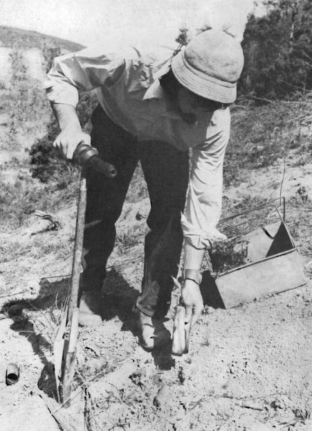 Tree planting Strzelecki Ranges